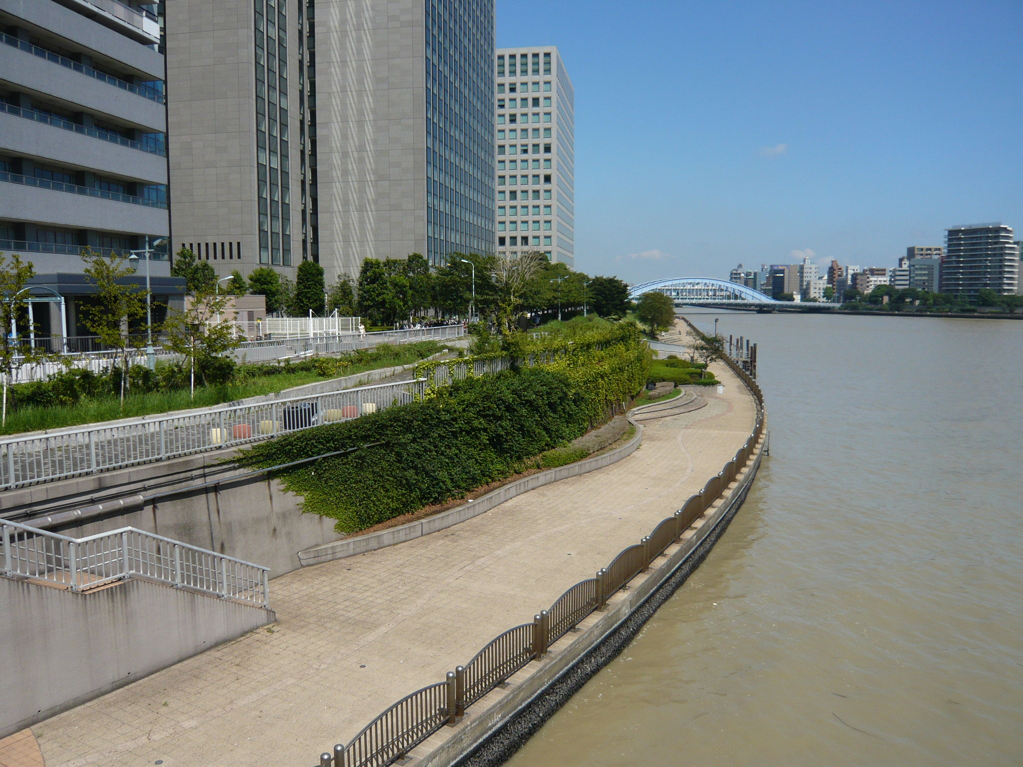 Shinkawa Park(新川公園) in Chuo-ku,Tokyo,Japan.